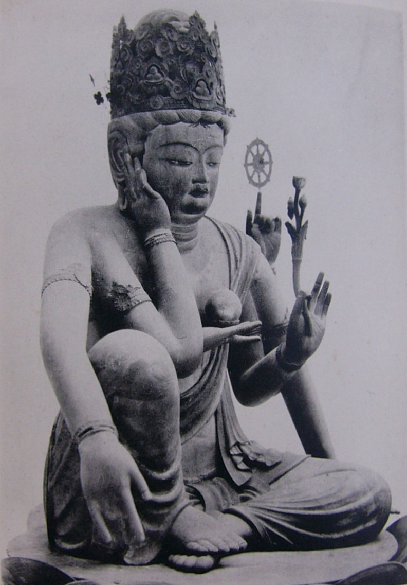 NYOIRINN-KANNONN(Cintamani Cakra) a Genos of Avalokiti Boddhisatva in Kanshinji, Osaka, Japan, about 108cm BODY height, about 9th century